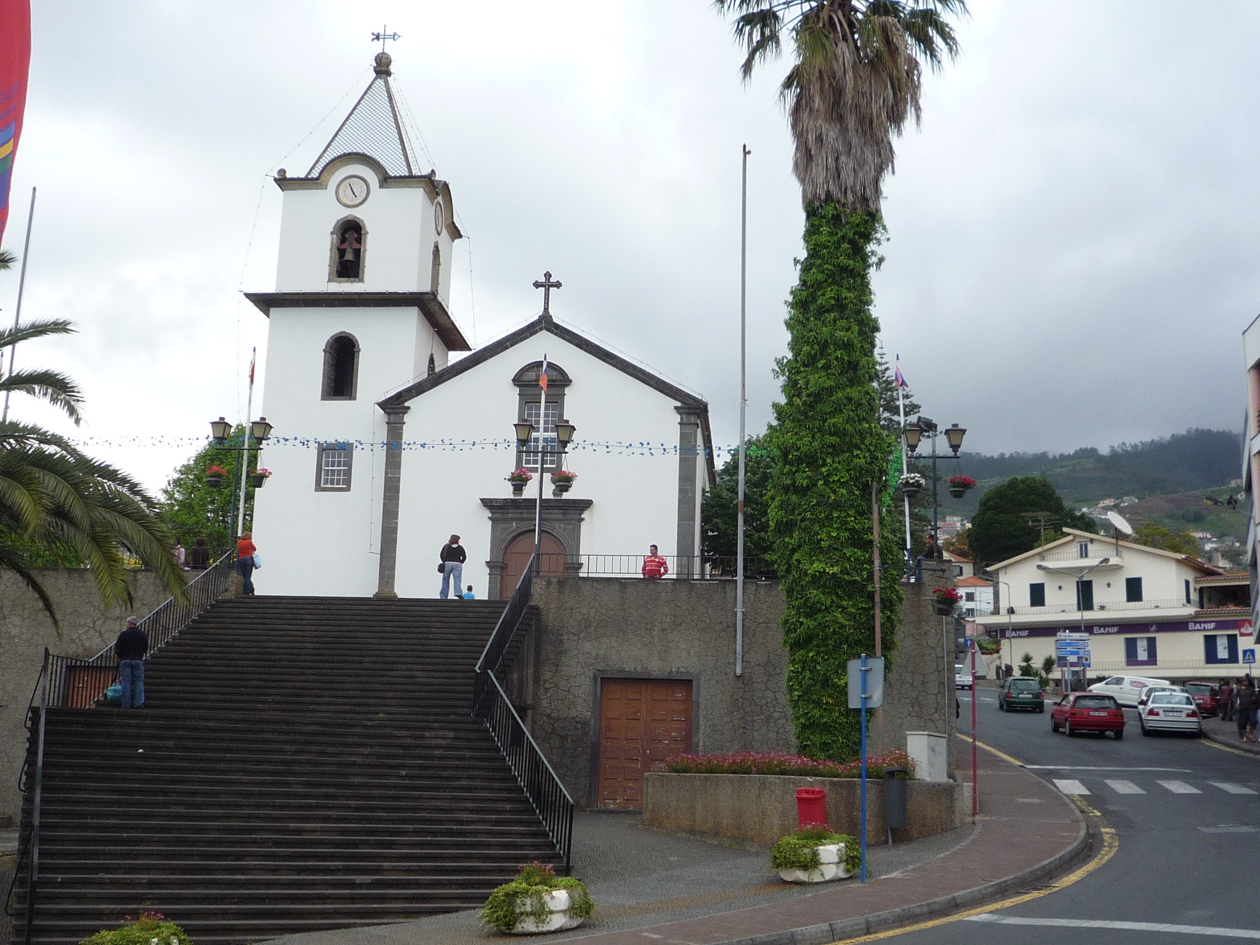 The church of Our Lady of Grace at 32°40′16″N 16°58′48″W / 32.671022°N 16.979955°W in Estreito de Câmara de Lobos, Madeira (diocesan website). The street, Rua Cónego Agostinho Figueira de Faria was named after an ecclesiastical son of the parish: "by resolution buddy of 18 May 1995 the City Council Chamber of the Wolves gave their name to the street between the apricot and Largo's skate"[1]. More images.